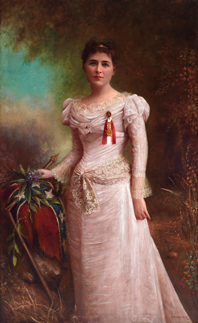 Portrait of Varina Anne "Winnie" Davis, by John P. Walker.